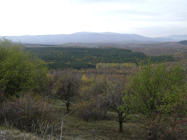 Eremia, village Bulgaria